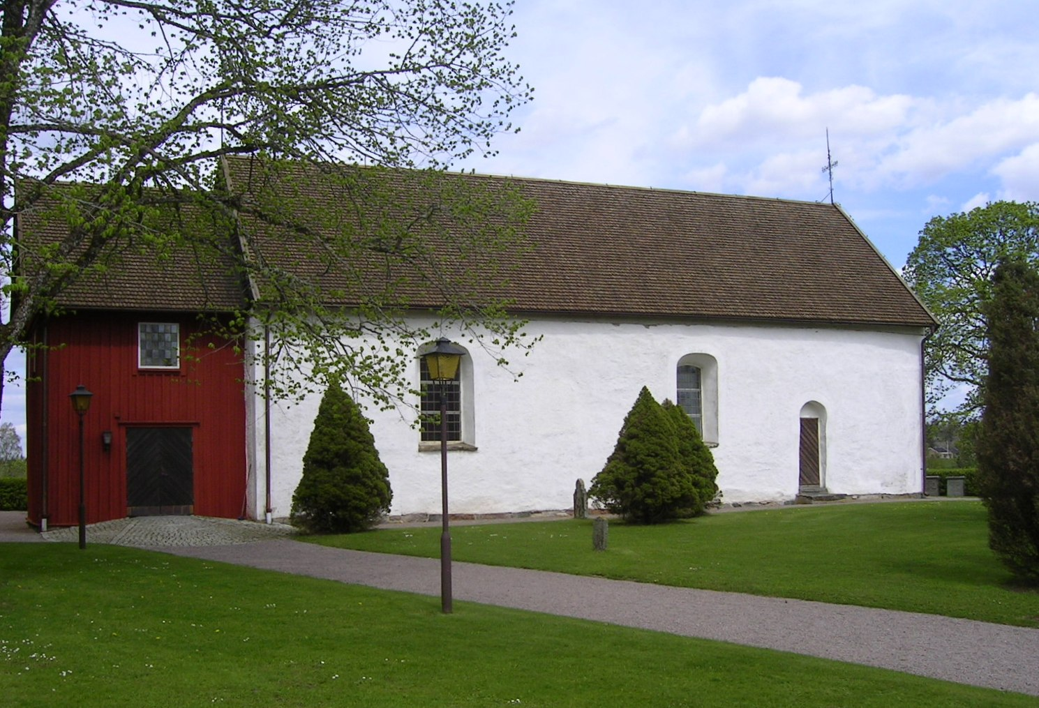 The church of Ödestugu in the province of Småland, Sweden.